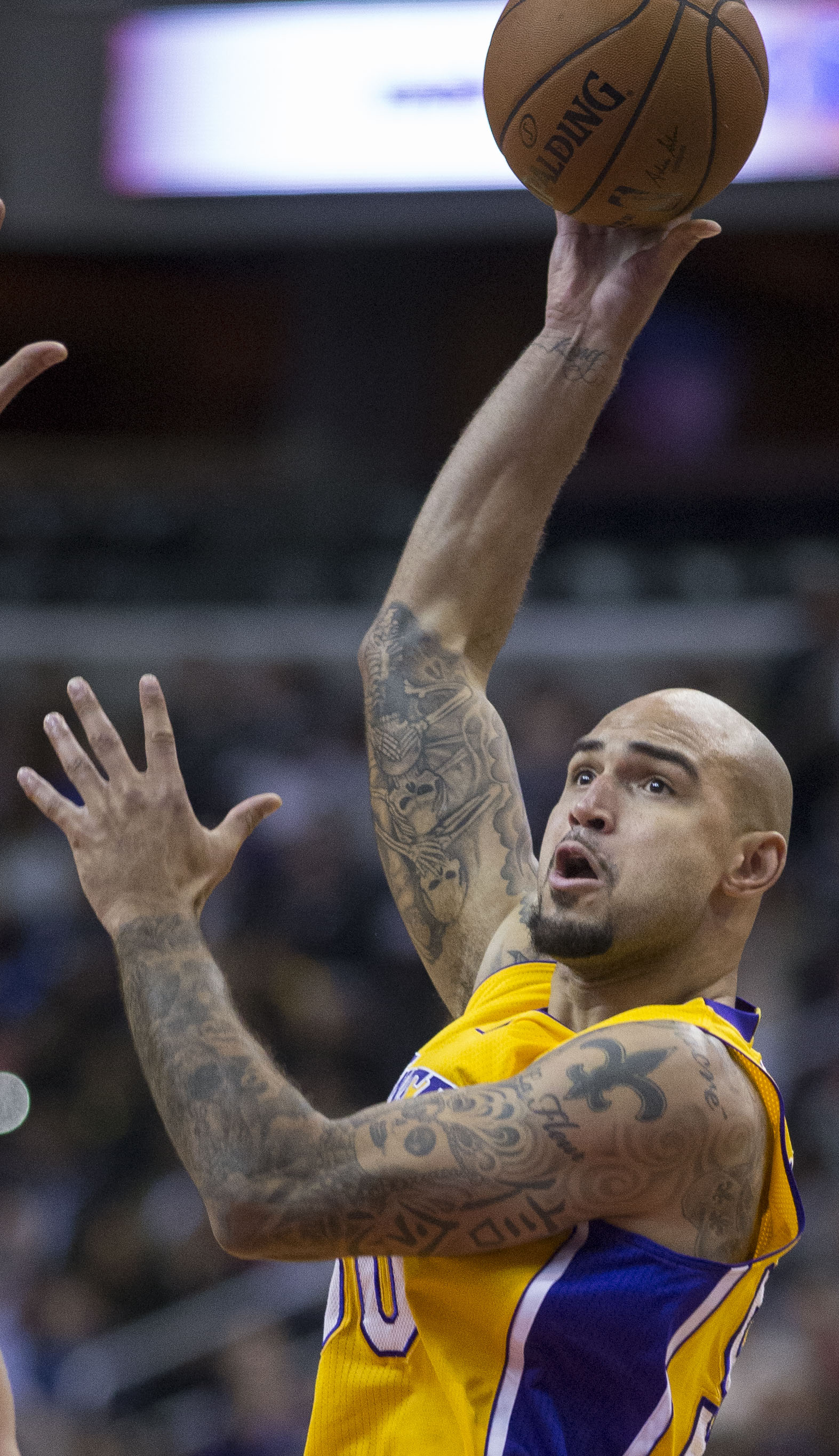 Robert Sacre shooting against Marcin Gortat